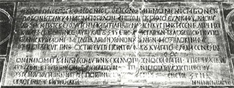 Saint Apostles Church in Molyvdoskepastos Inscription 1645